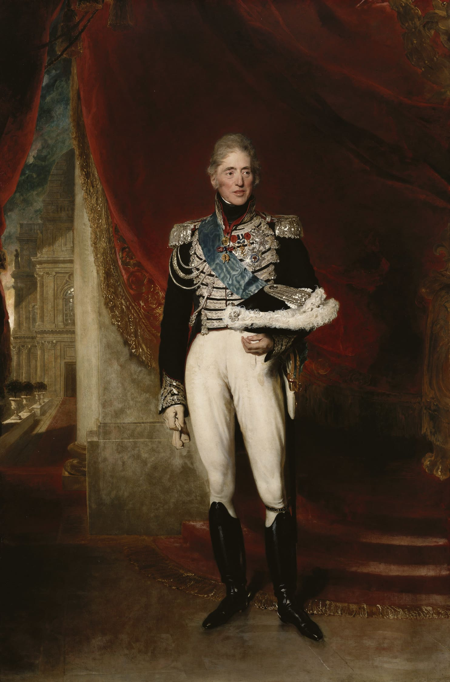 Portrait of Charles X, King of France